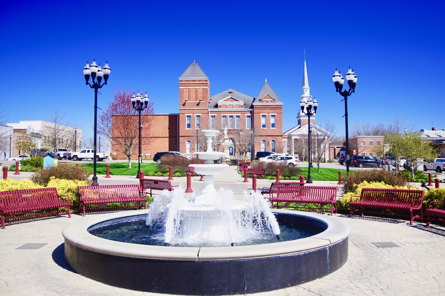 Fountain on the courthouse square in McMinnville, Tennessee, United States, with the Warren County Courthouse rising in the background.